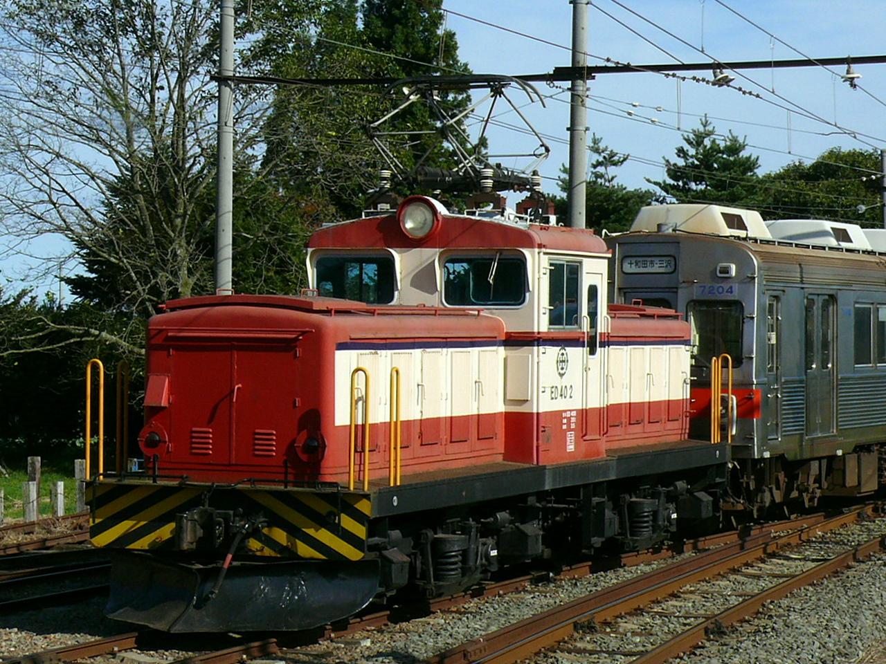 Towada Kanko Electric Railway Type ED301 Electric locomotive. (Aomori Prefecture)